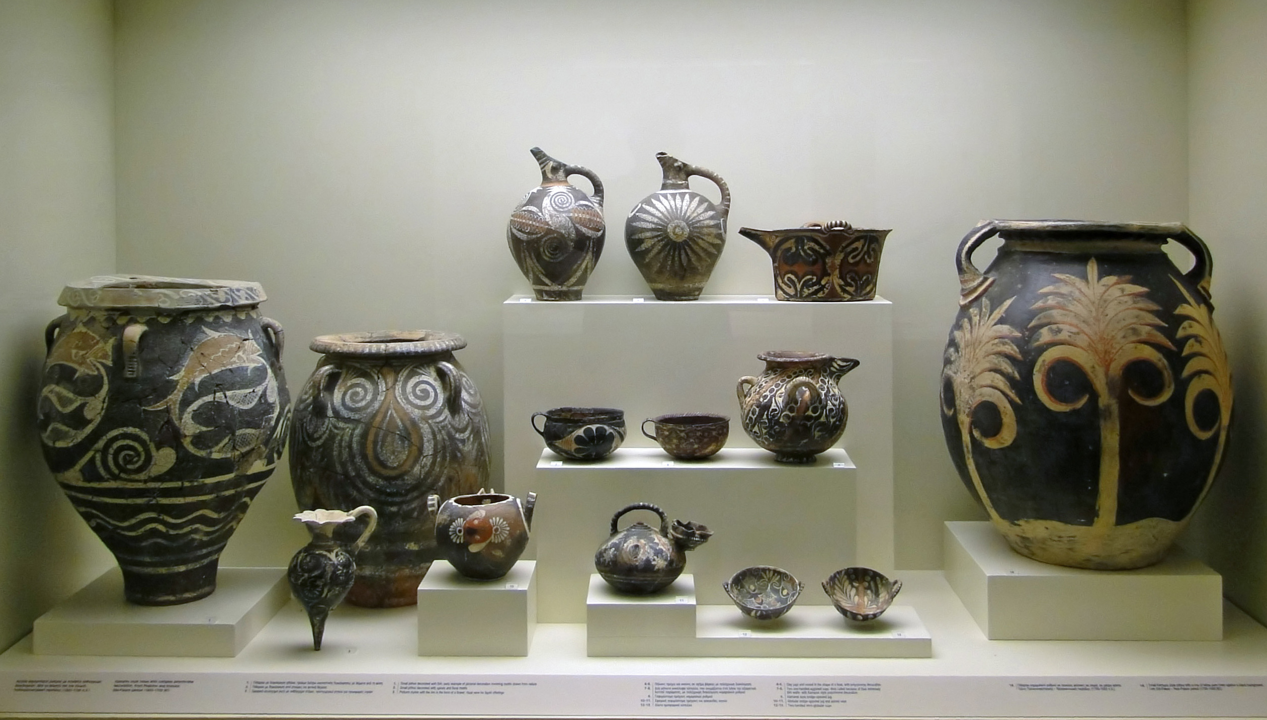 Kamares style vases from Phaistos and Knossos (1800-1700 BC), Heraklion Archaeological Museum, Crete, Greece